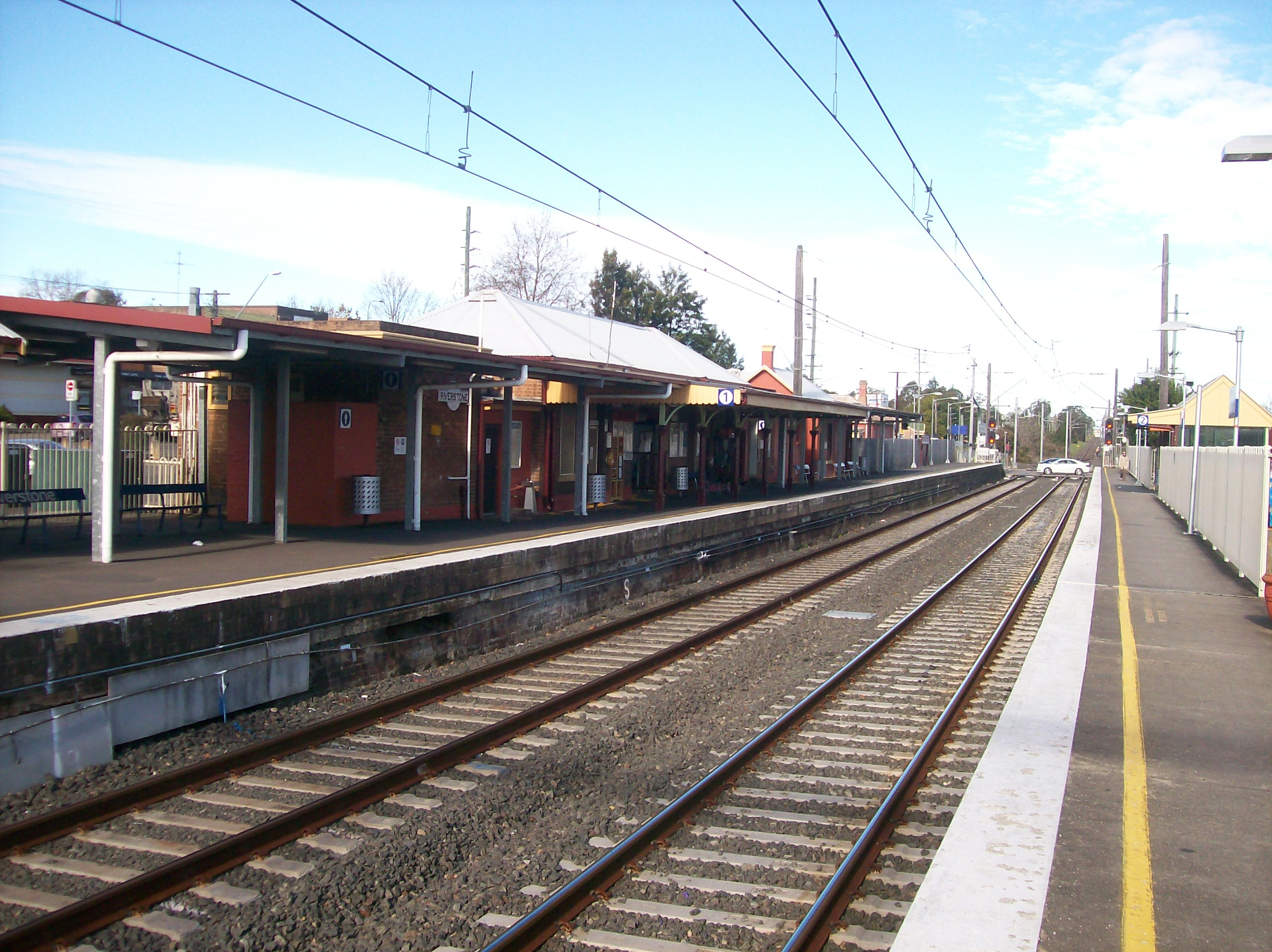 Riverstone railway station